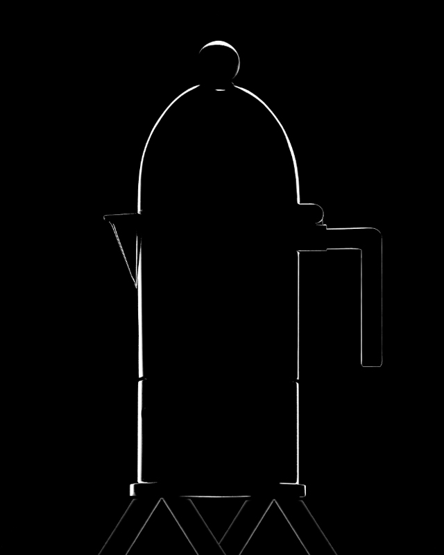 Aldo Rossi La Cupola Espresso Machine produced by Alessi